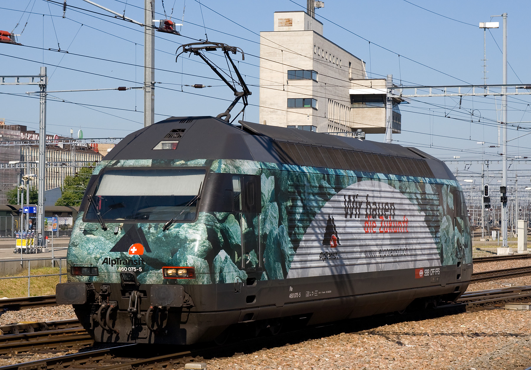 SBB Re 460 in "AlpTransit" livery. The text reads "Wir bauen die Zukunft", which translates to "We build the future". AlpTransit is the umbrella organisation for the construction of the new Gotthard base tunnel. The picture was taken in Zurich.